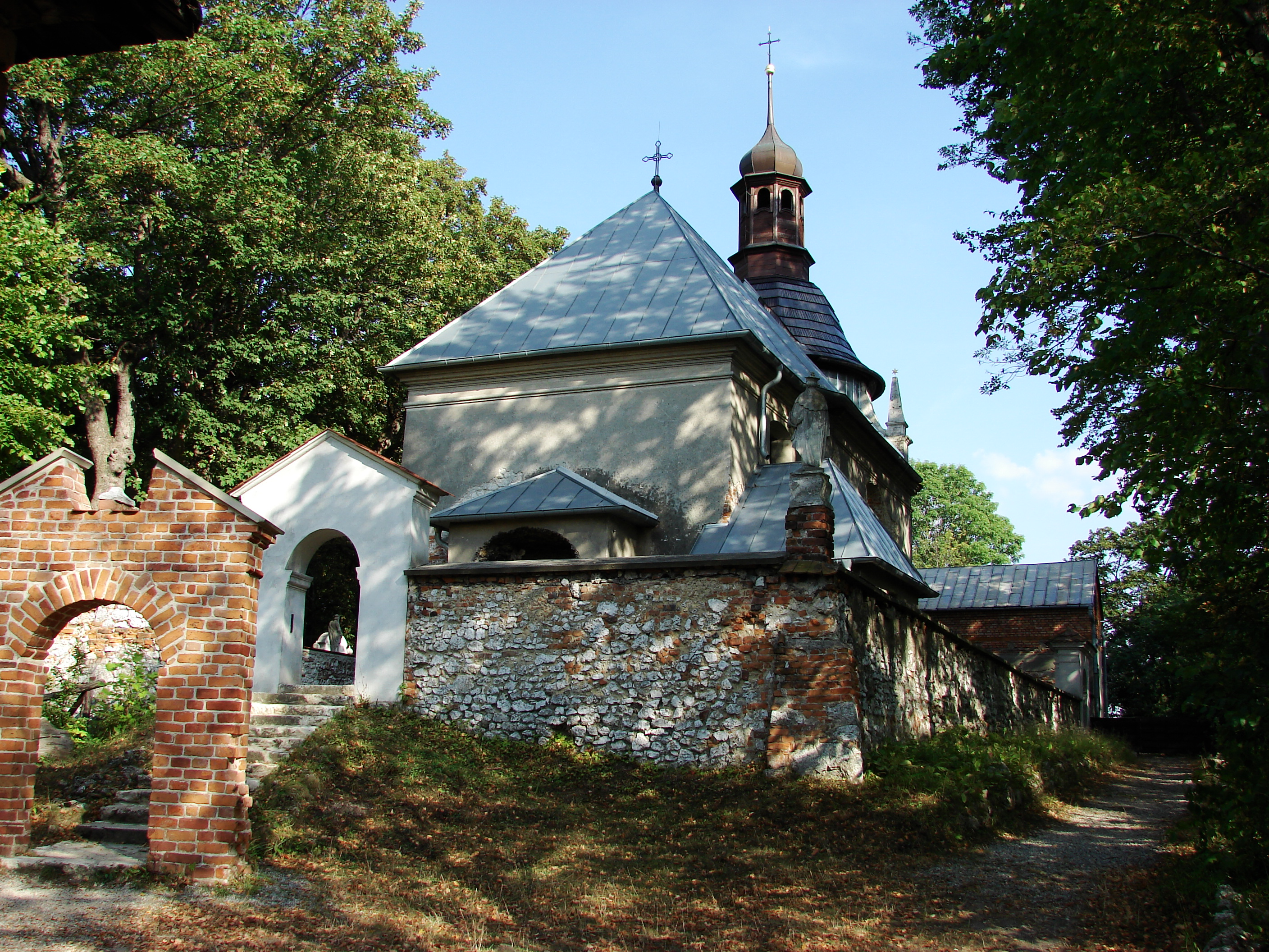 Church in Grodzisko near Skała - ouside